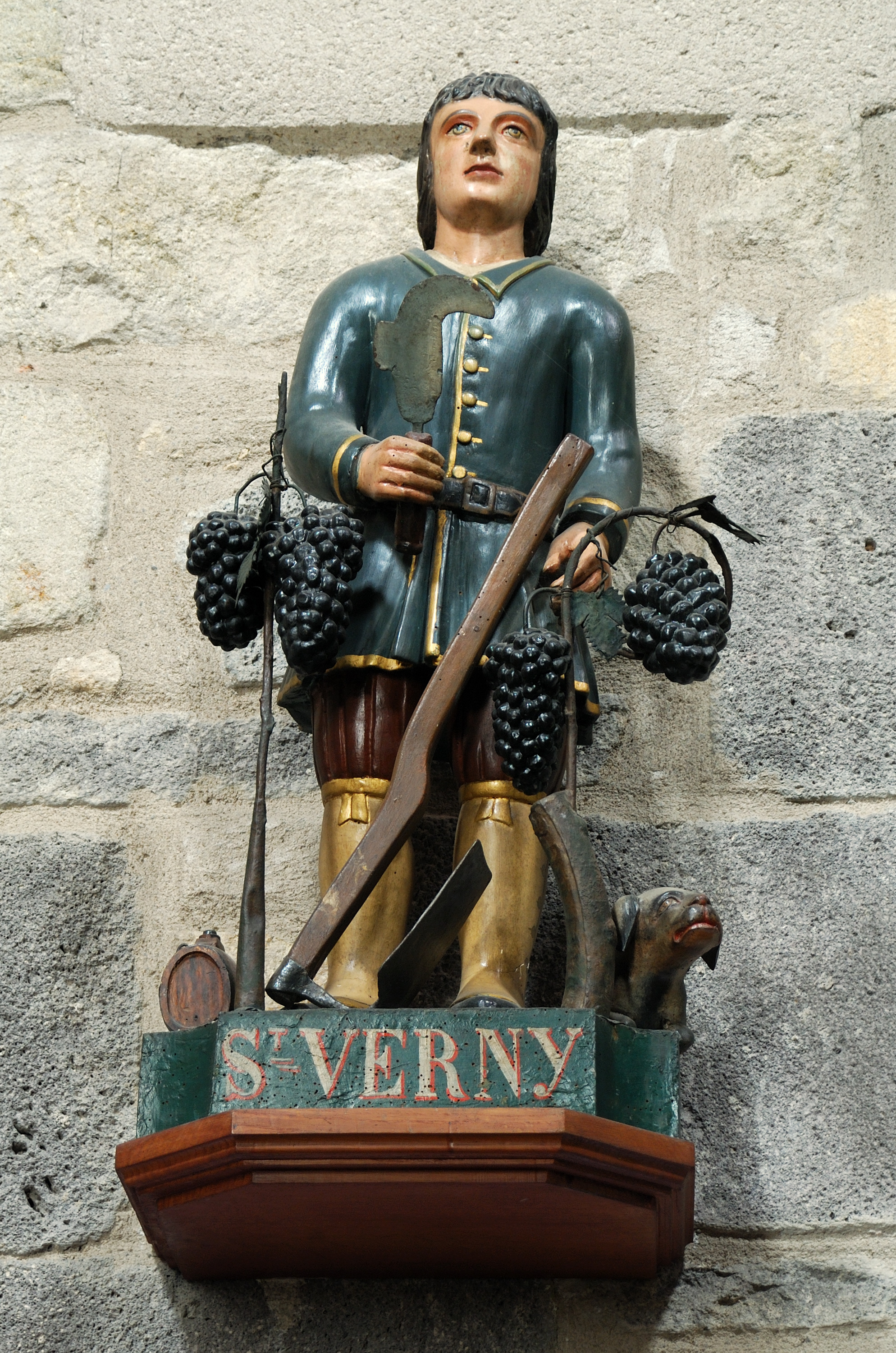 Beaumont: Saint Pierre church, statue of Saint Verny (Puy-de-Dôme, France).